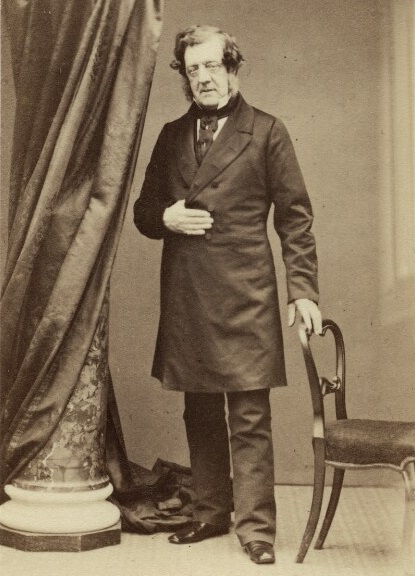 Sitter: Sir William Tite, British architect and politician, 1860s, Liberal MP for Bath and President of the Royal. Artist: Hennah & Kent (active 1852–1884). Place made: United Kingdom: England, Sussex (photographers' studio, 108 King's Road, Brighton) Medium/date: albumen carte-de-visite, 1860s